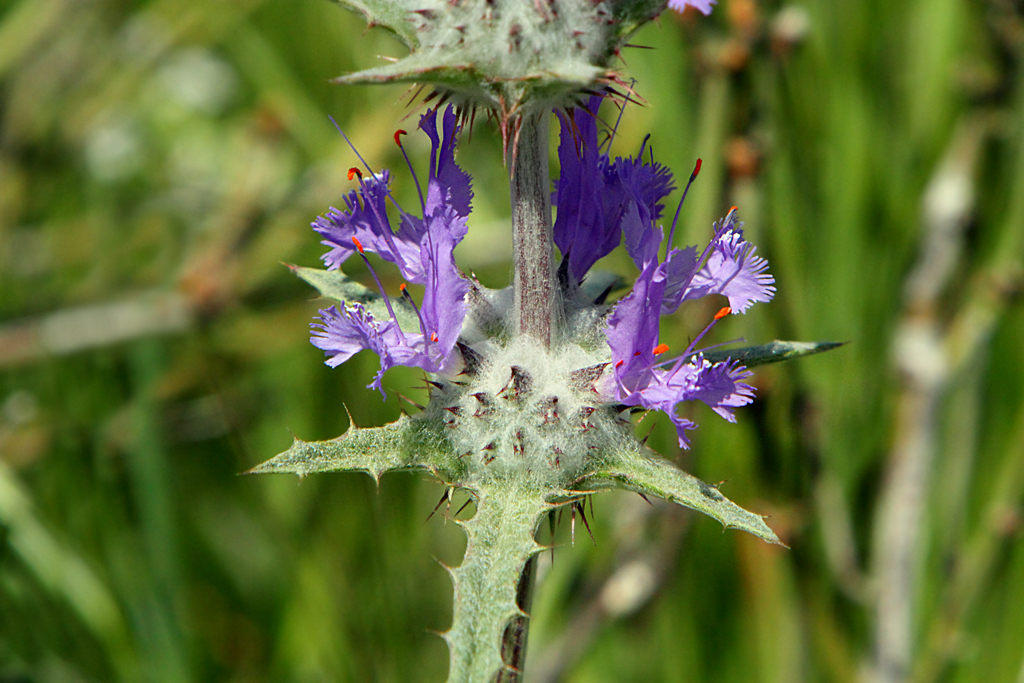 Thistle sage (Salvia carduacea), observed in the Carrizo plain, California, USA.